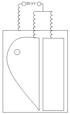 Nitrogen Laser. Composed from various sources on the Web and in the Journal on Scientific Instruments, by me using my computer. Nothing was electronically copied. Everthing was altered. 2005-08.